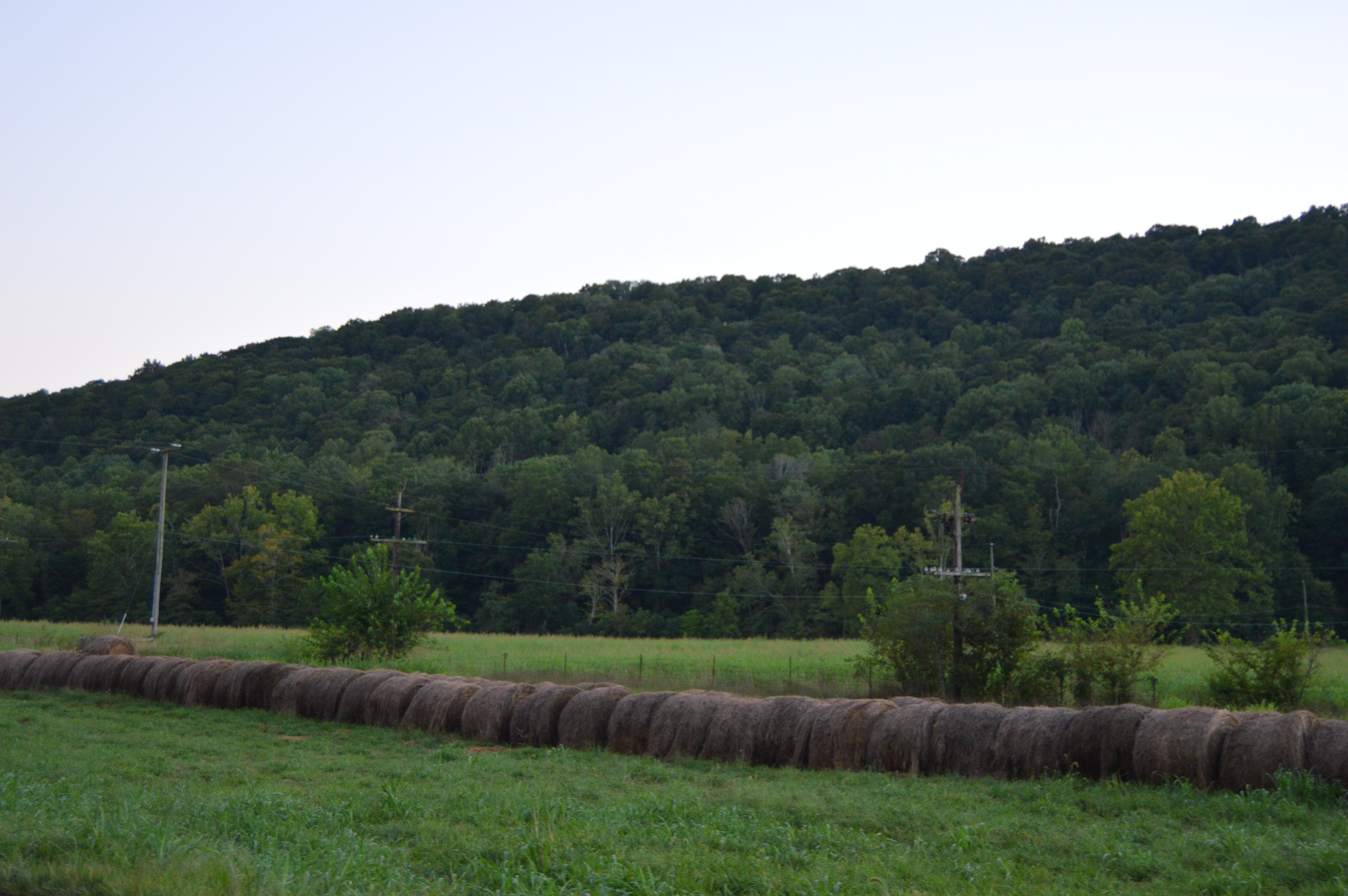 Hay bales and a wooded hillside on the southwestern side of State Route 73 in Rarden Township, Scioto County, Ohio, United States.